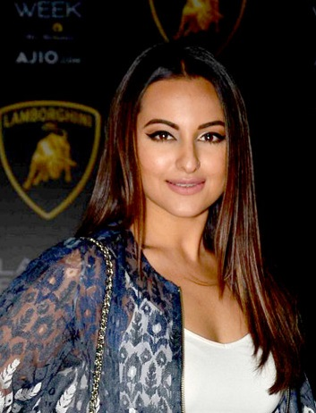 at lakme Fashion week 2017